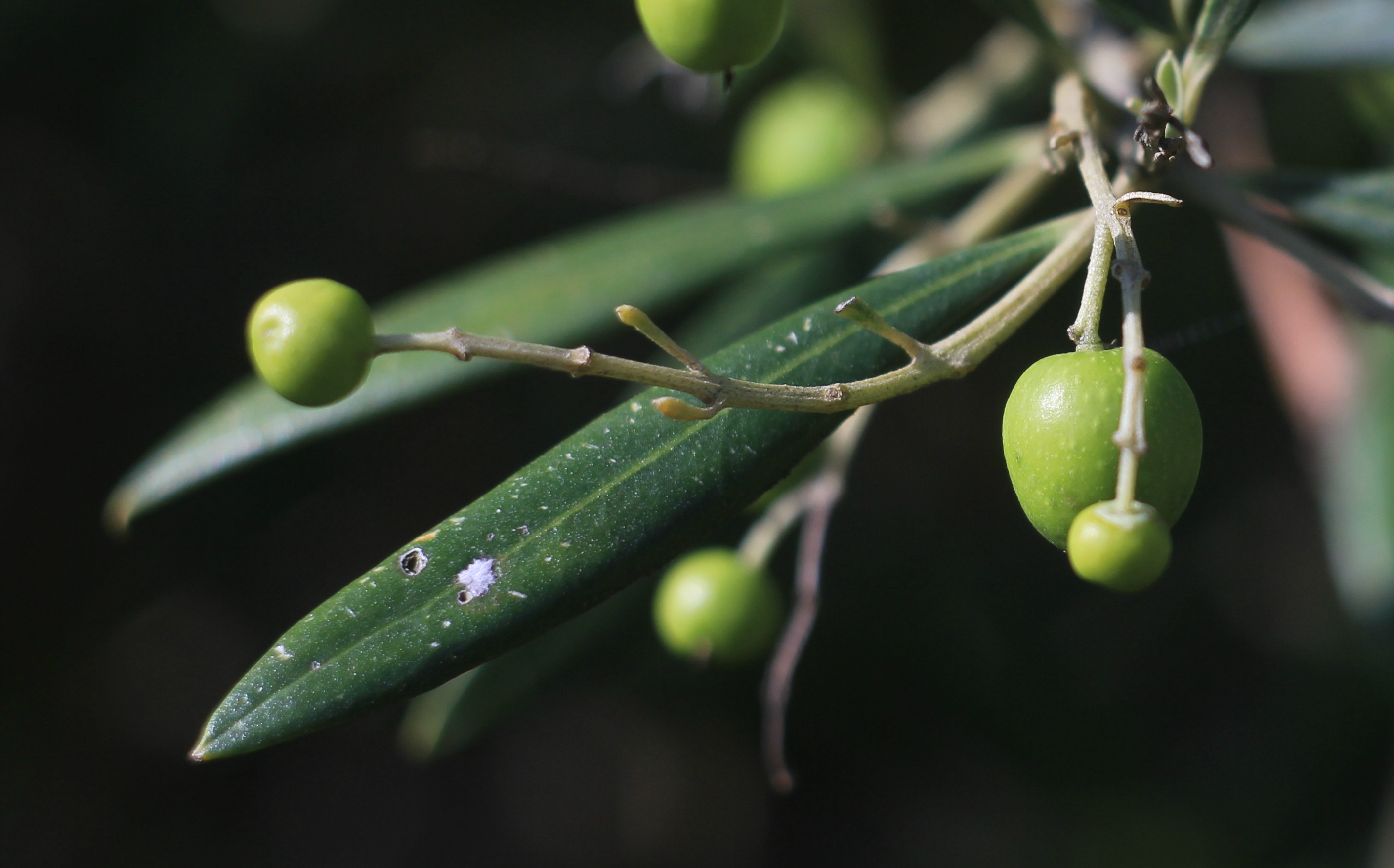 taken with an Helios-44-2 on a Canon 550D. F/2.8 of F4.